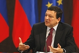 KHANTY-MANSIYSK. Joint press conference following the Russia - European Union summit. With Chairman of the European Commission Jose Manuel Barroso.